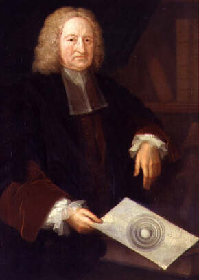 Edmond Halley with a diagram showing the multiple shells of his hollow Earth theory.